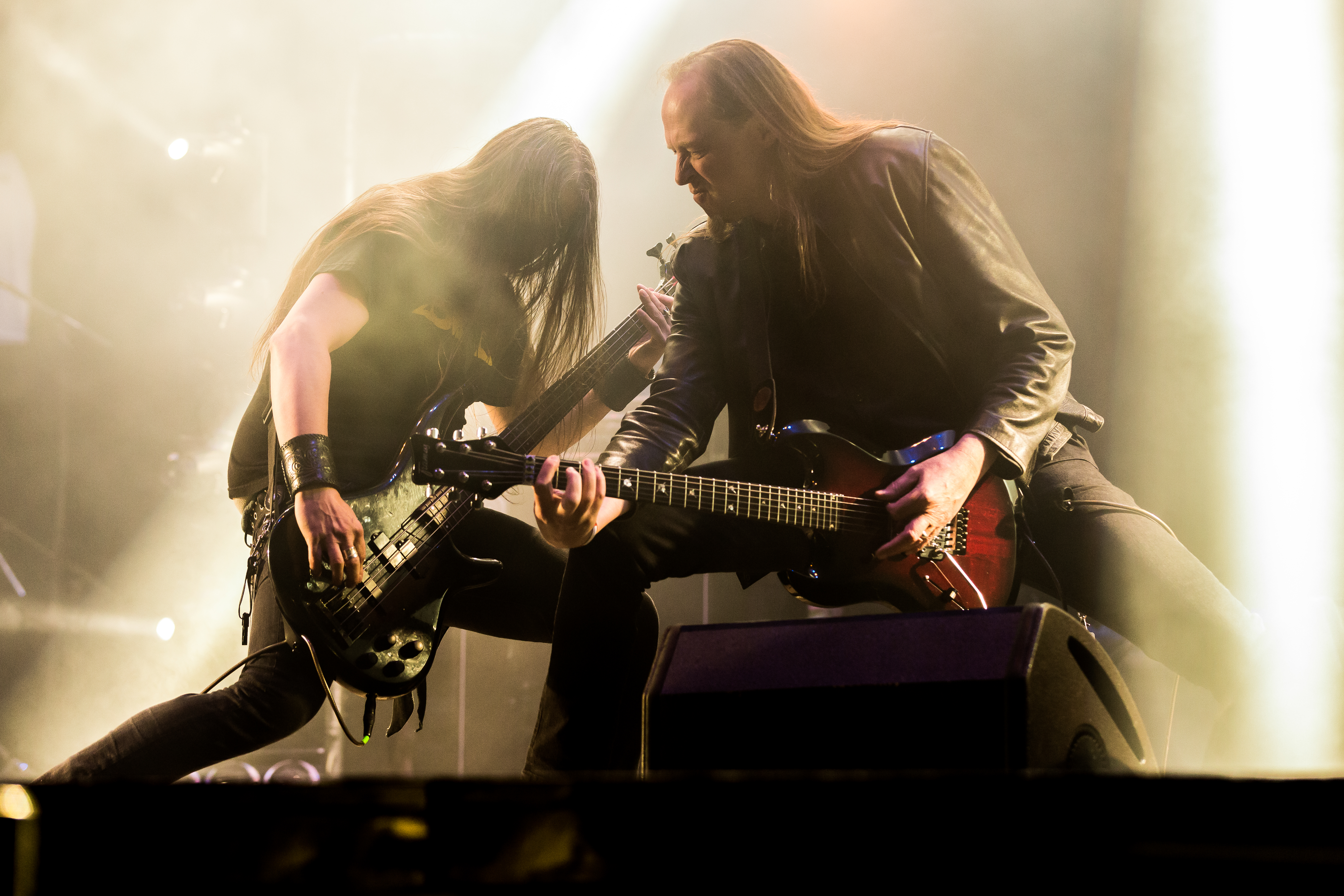 The Swedish epic doom band Candlemass at the Party.San Metal Open Air 2017 in Obermehler-Schlotheim/Germany.